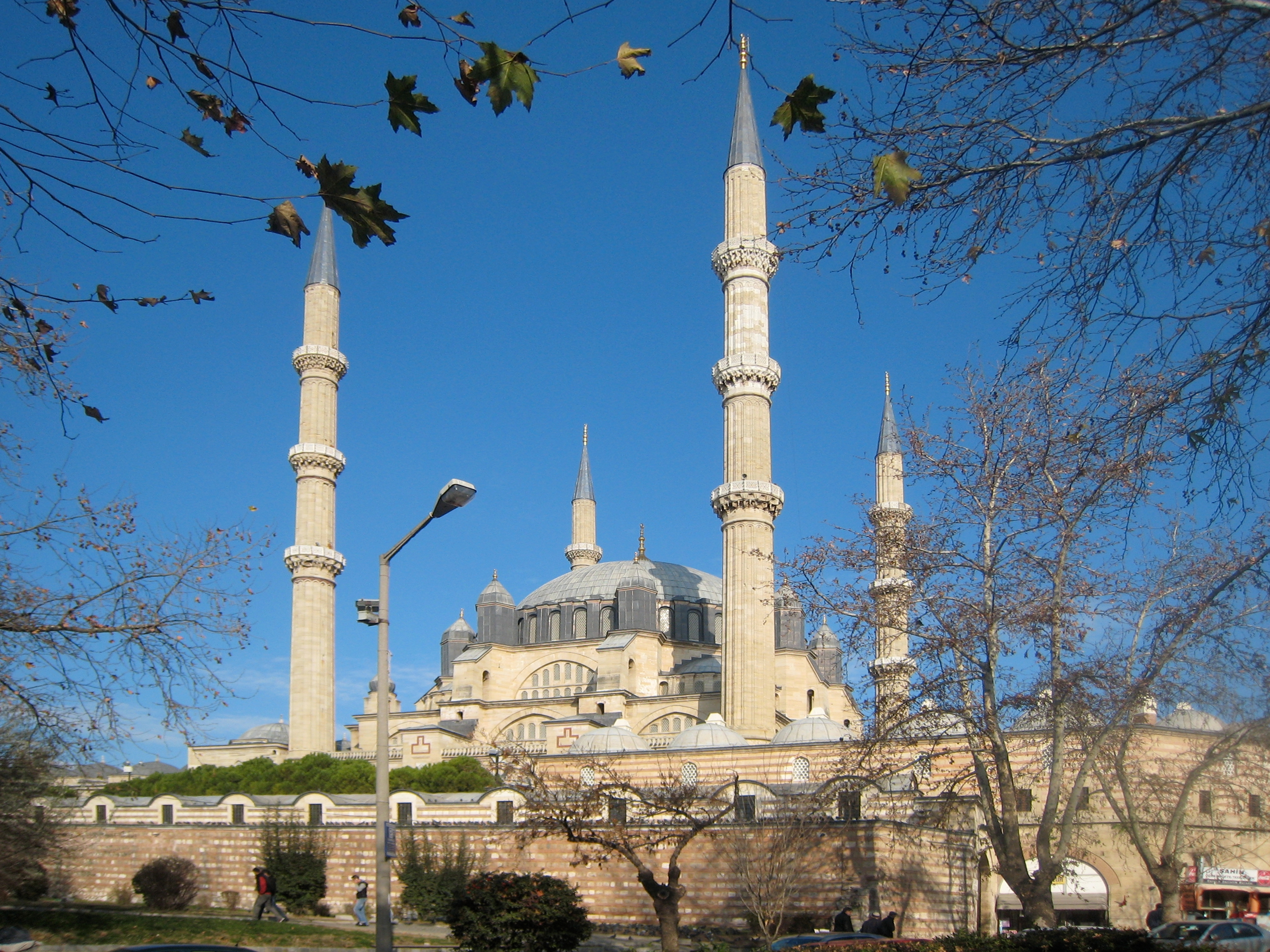 Selimiye Mosque